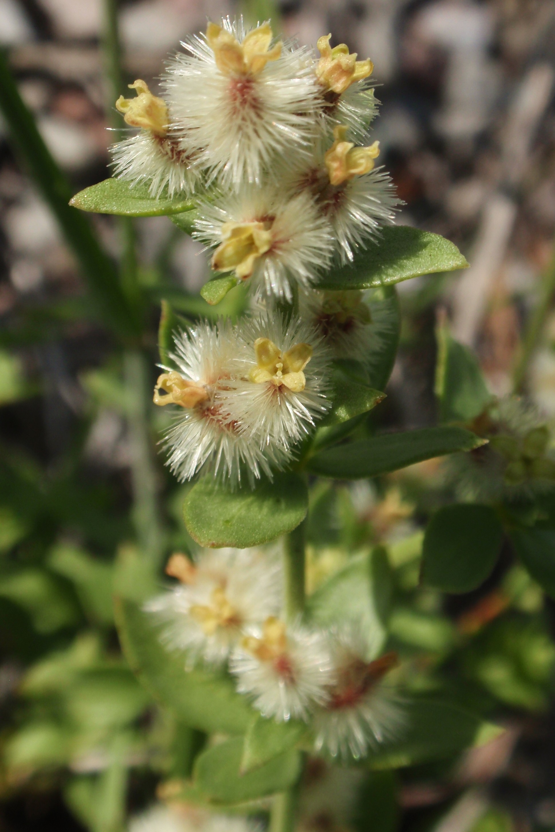 Galium grayanum — Gray's Bedstraw. Order Gentianales in the United States.